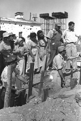 Givati troops in Nitzanim during the 1948 Arab-Israel War